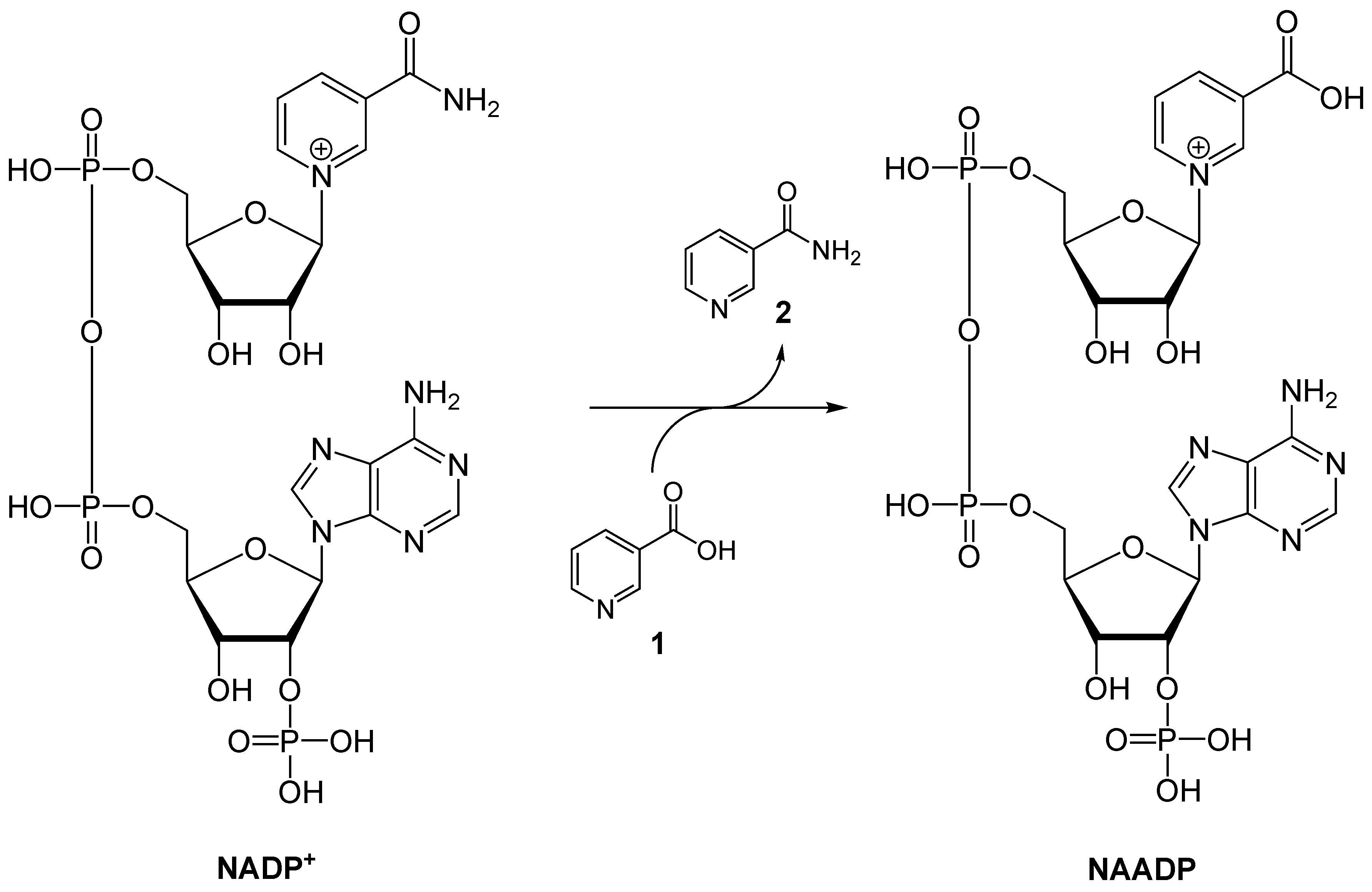 base exchange reaction to generate NAADP